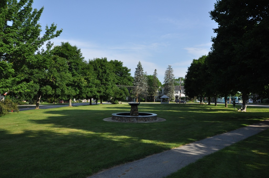 Broad Street Historic District, Bethel Common, Bethel, Maine